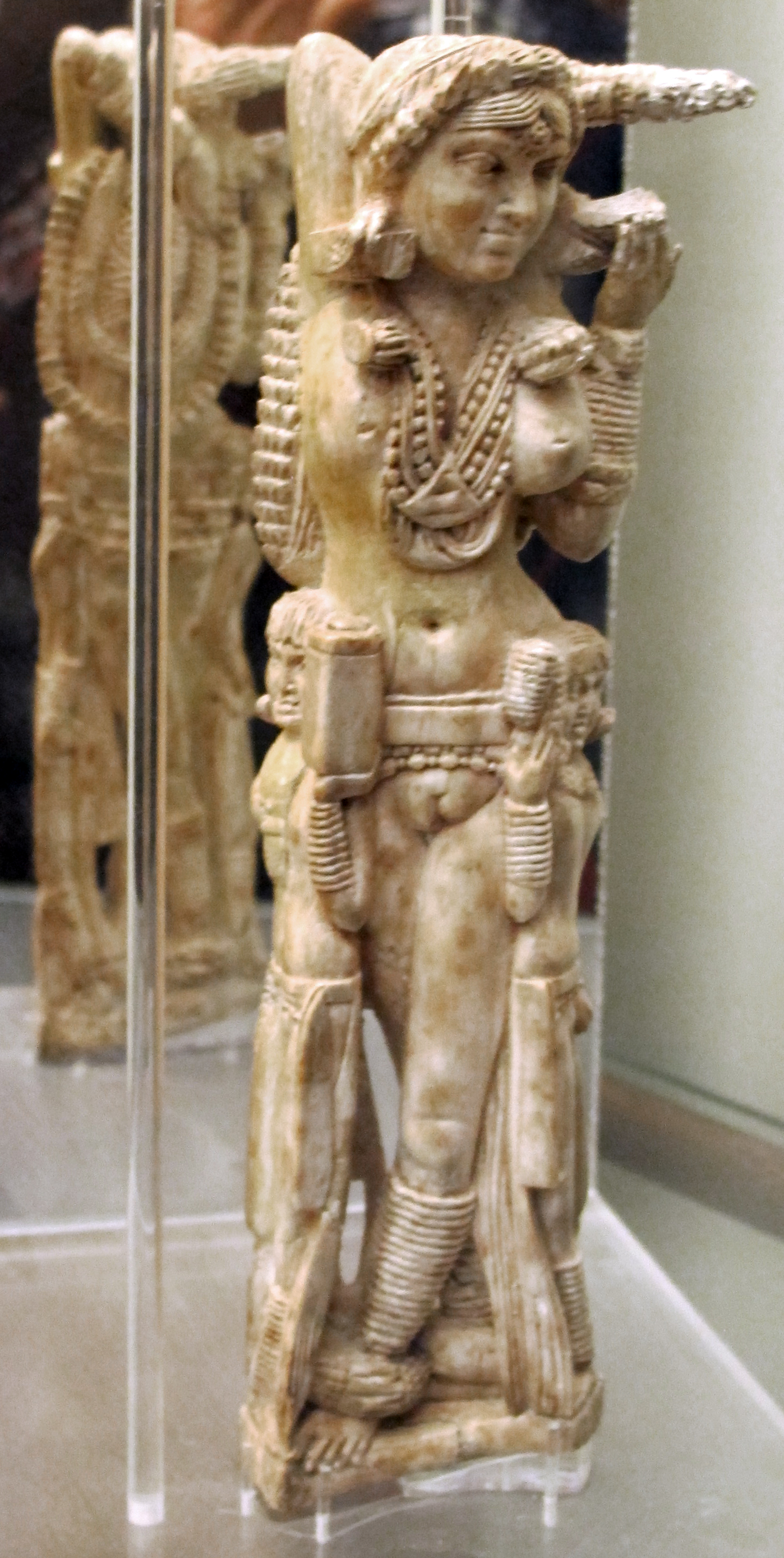 Secret Cabinet in the Museo Archeologico (Naples)